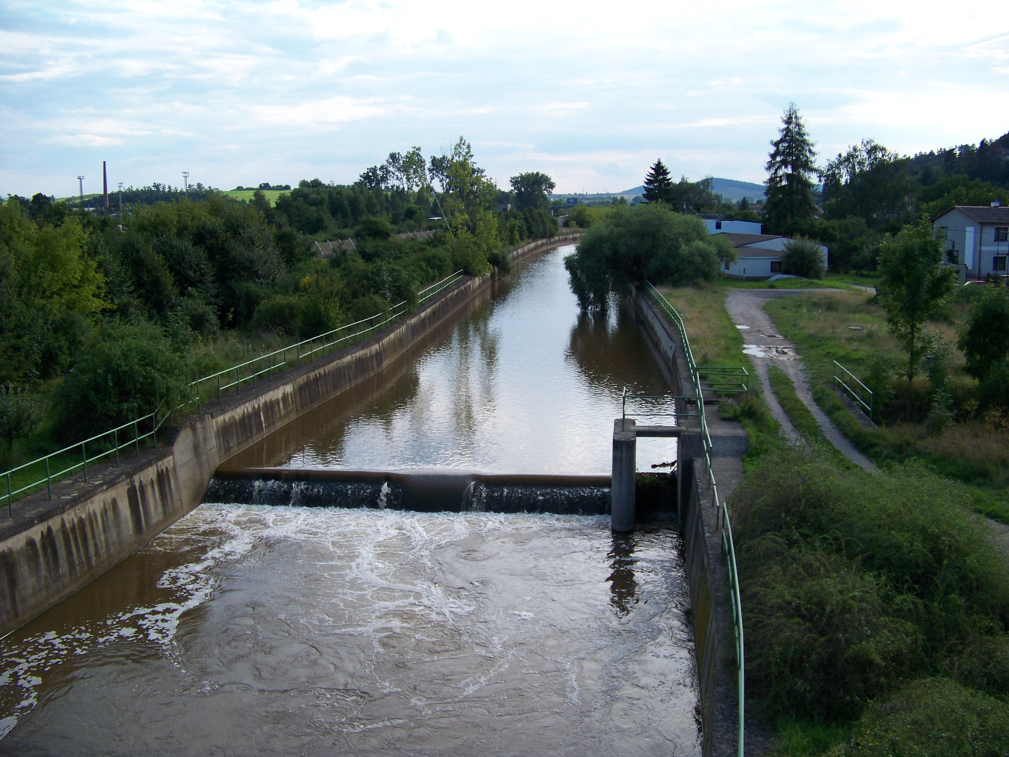 Zdice, Beroun District, Central Bohemian Region, the Czech Republic. Červený potok stream from a bridge of Československé armády street.